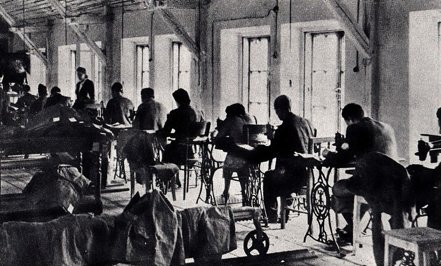 Jews working in one of the manufacturing plants (so called szops) in the Warsaw Ghetto